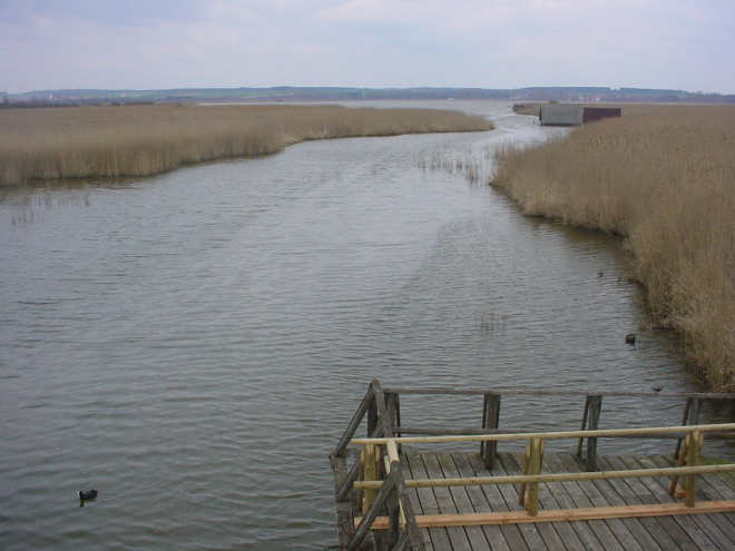 Der Federsee bei Bad Buchau.